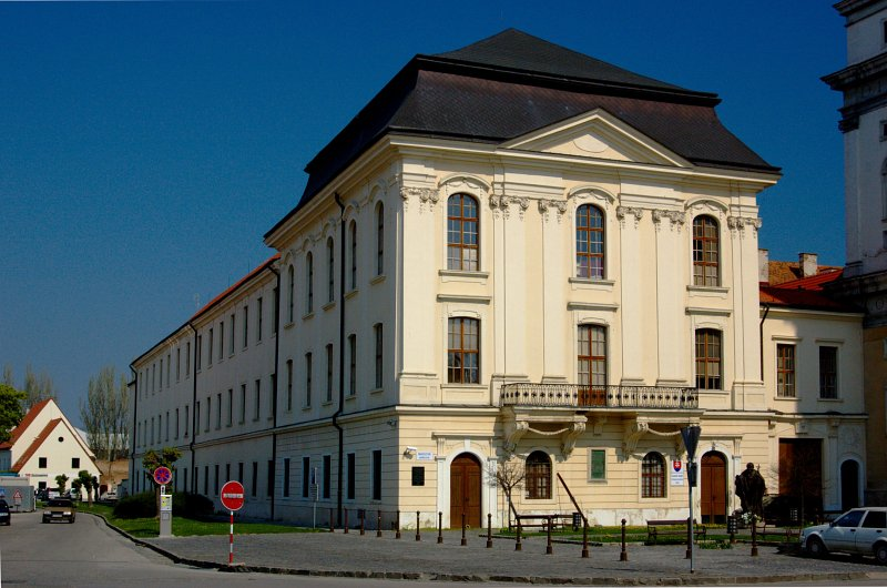 Old university building, Trnava